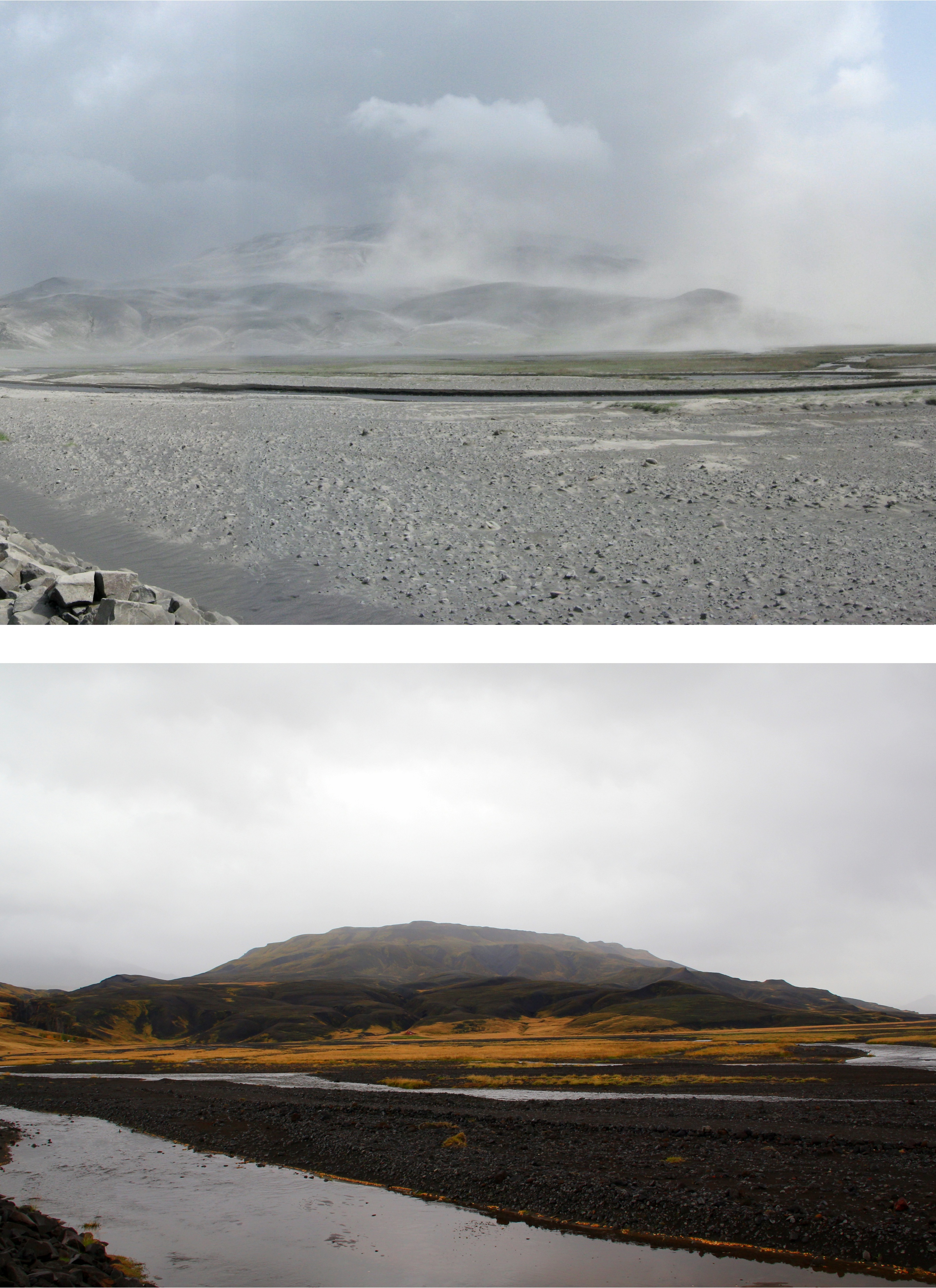 Thorsmork valley, Iceland, immediately north of Eyjafjallajökull. Upper panel: Immediately after the eruptions ended, in June 2010. Lower panel: September 2011.